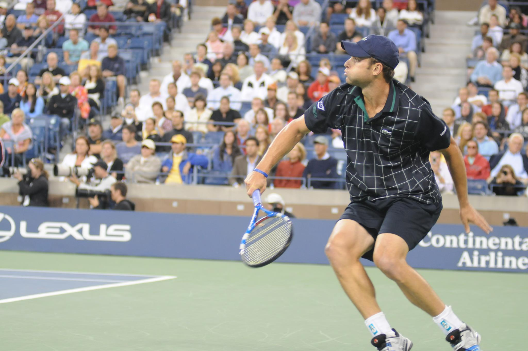 Andy Roddick at the 2009 US Open